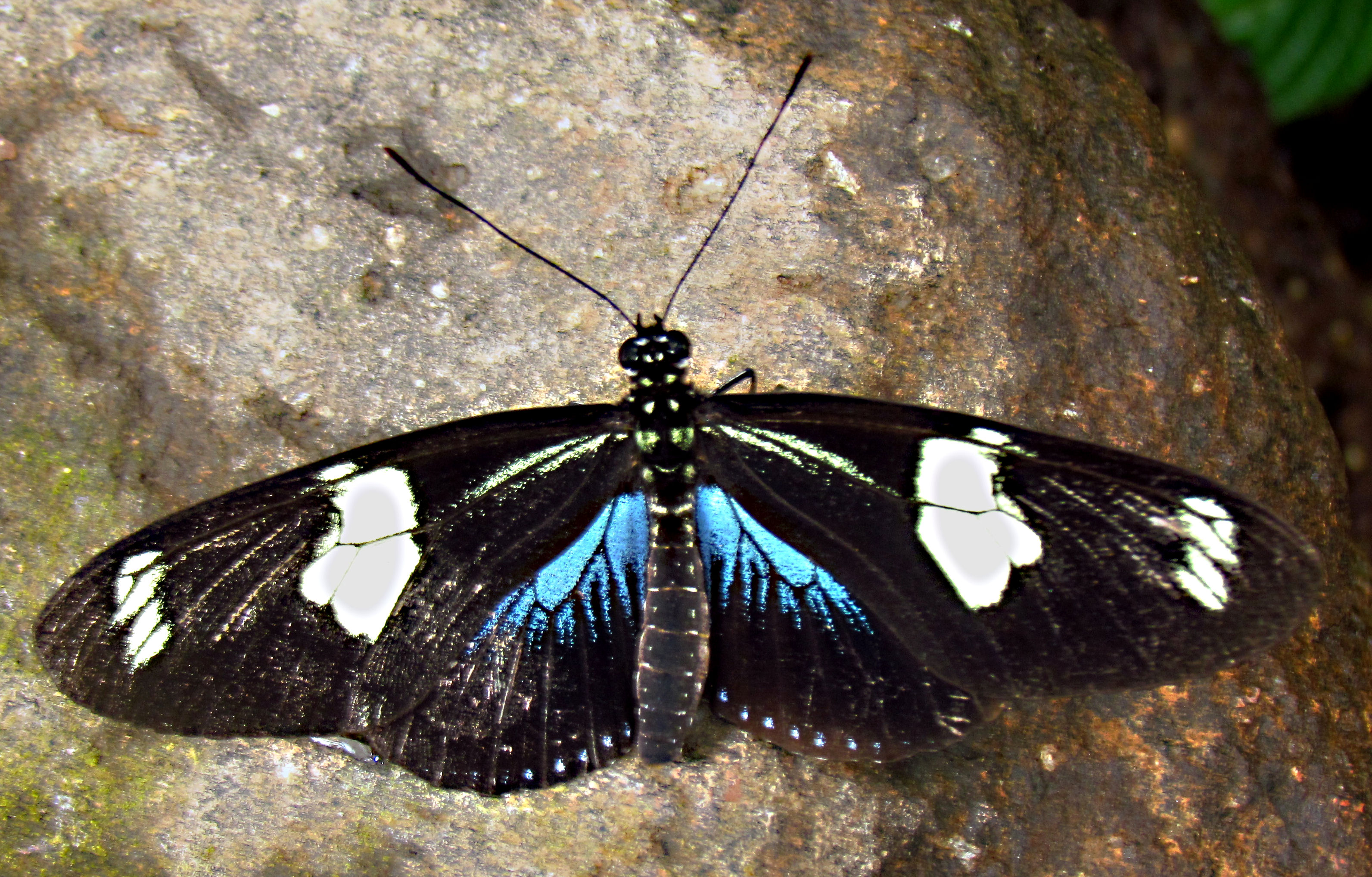 Doris Longwing (Laparus doris), Quito, Ecuador